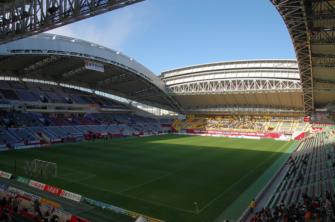 Inside view of Kobe Wing Stadium, Kobe, Hyogo Prefecture, Japan. Its rectangle roof was opened. This picture was taken on December 6, 2008. The game, between Vissel Kobe and Kasiwa Reysol, is J-League Division 1's final match in the 2008 season. The picture was originally uploaded in the Japanese internet community 2ch's "Domestic Soccer Board" (国内サッカー板), "Thread for Uploading Pictures Taken in Stadiums, Part 16" (スタジアム写真をウプするスレPart16). The original uploader permitted me to upload the picture in the next thread.